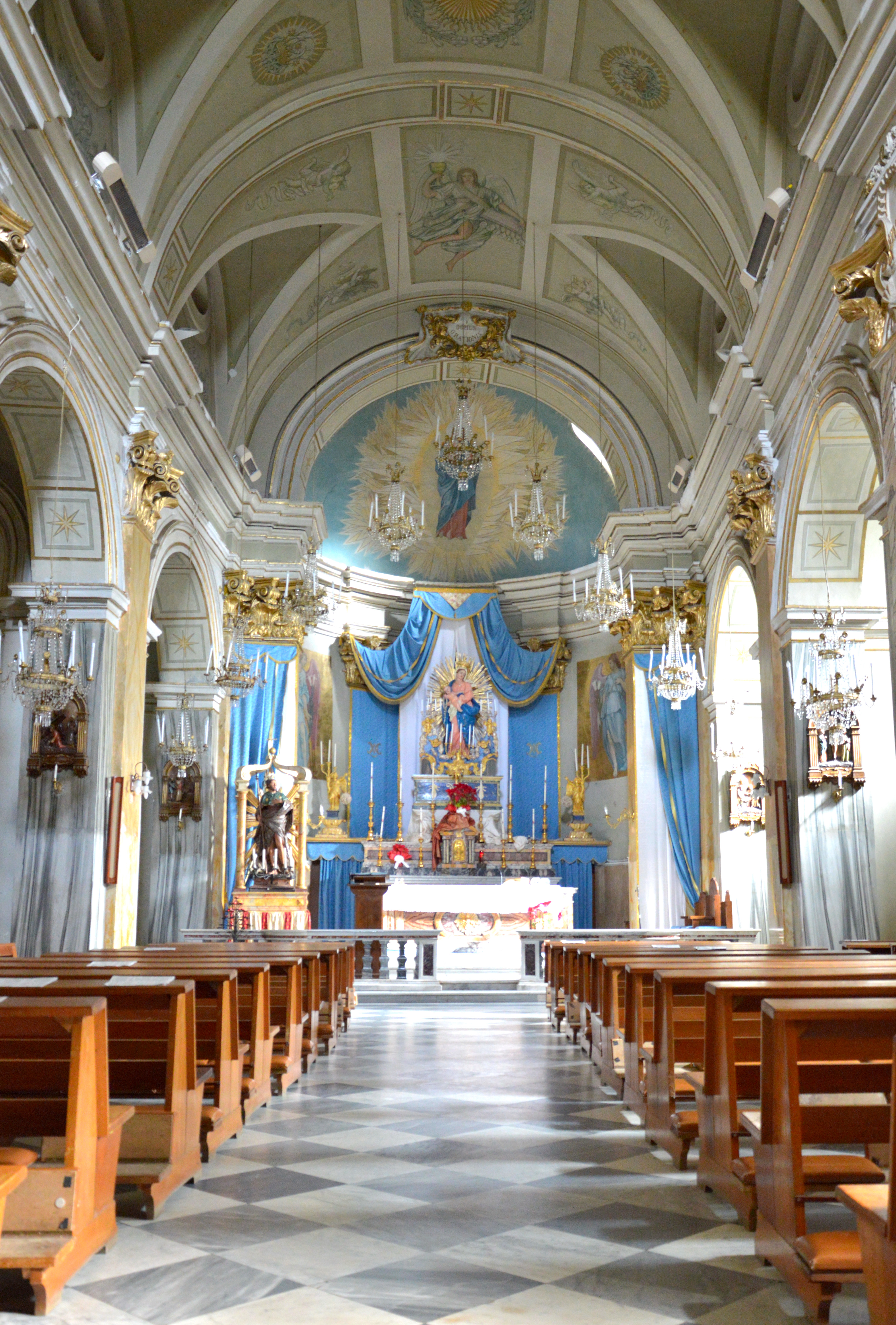 Gavignano (Rm)